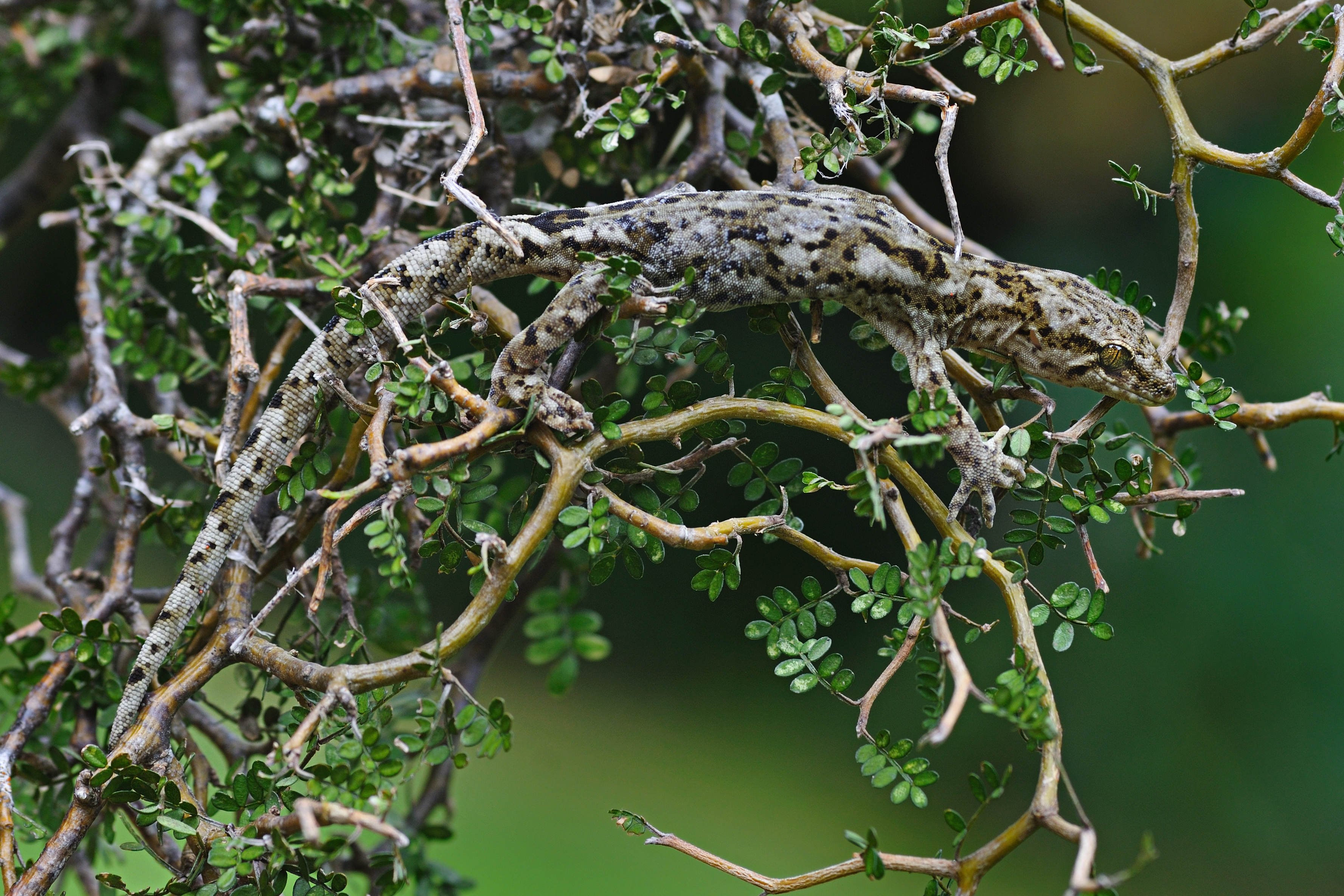 Jewelled Gecko (Naultinus gemmeus) Banks Peninsula Male